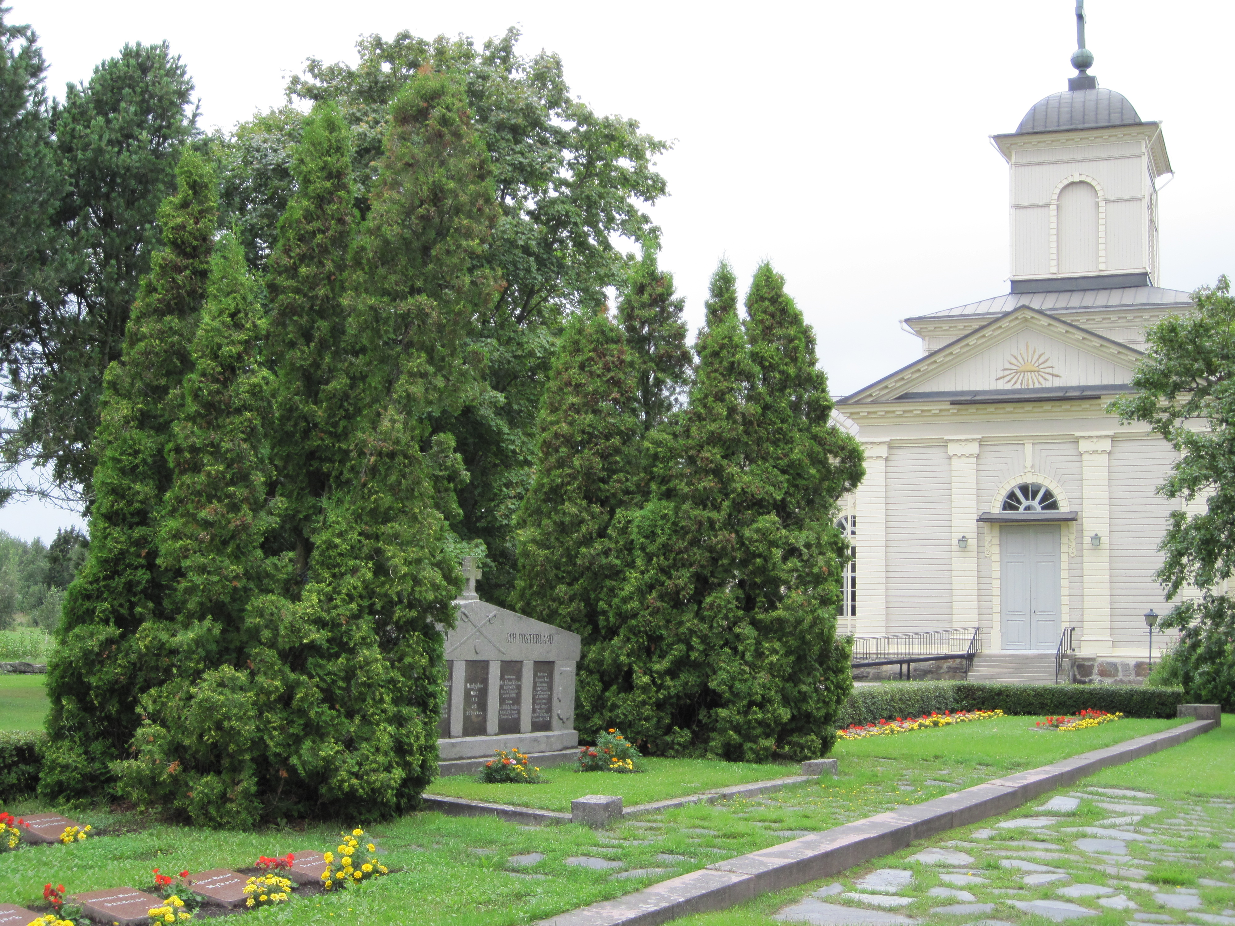 Military cemetary at Korsnäs church in Korsnäs , Finland